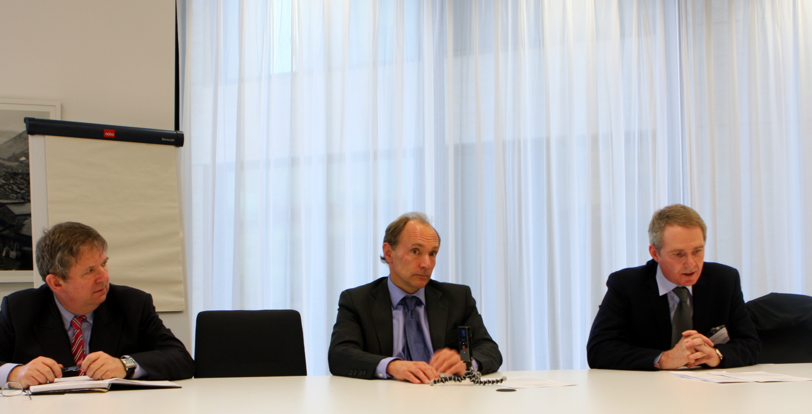 Andrew Stott, Sir Tim Berners-Lee and Professor Nigel Shadbolt give their insights just before the main launch event of .uk.